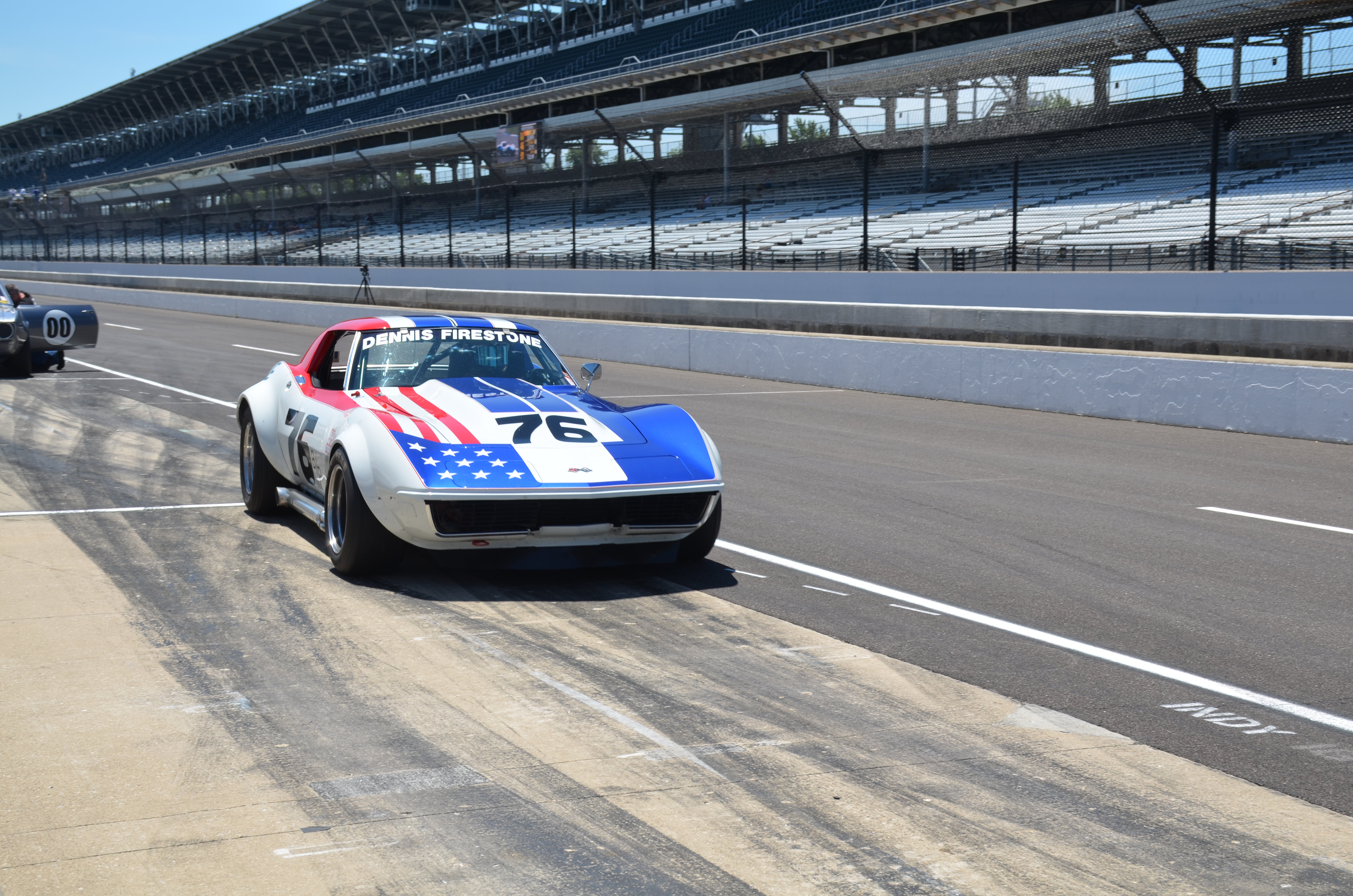 The car of Dennis Firestone at the 2016 SVRA Brickyard Invitational Indy Legends Charity Pro-Am race (Indianapolis Motor Speedway).